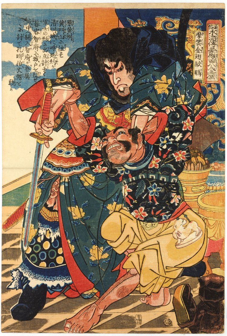 Ou Peng (歐鵬) grasps an enemy by the throat, a drawn sword in his other hand.